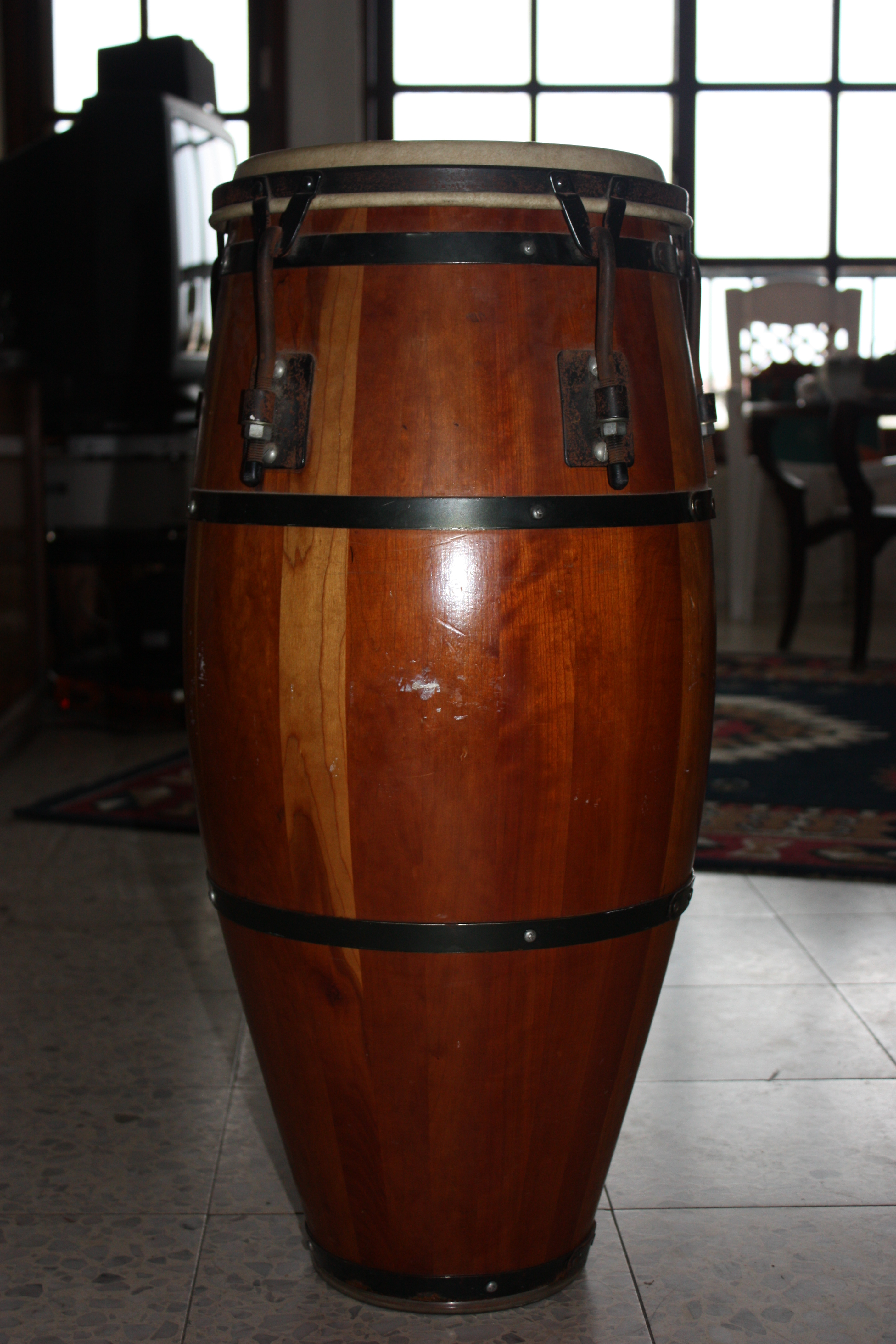 Conga